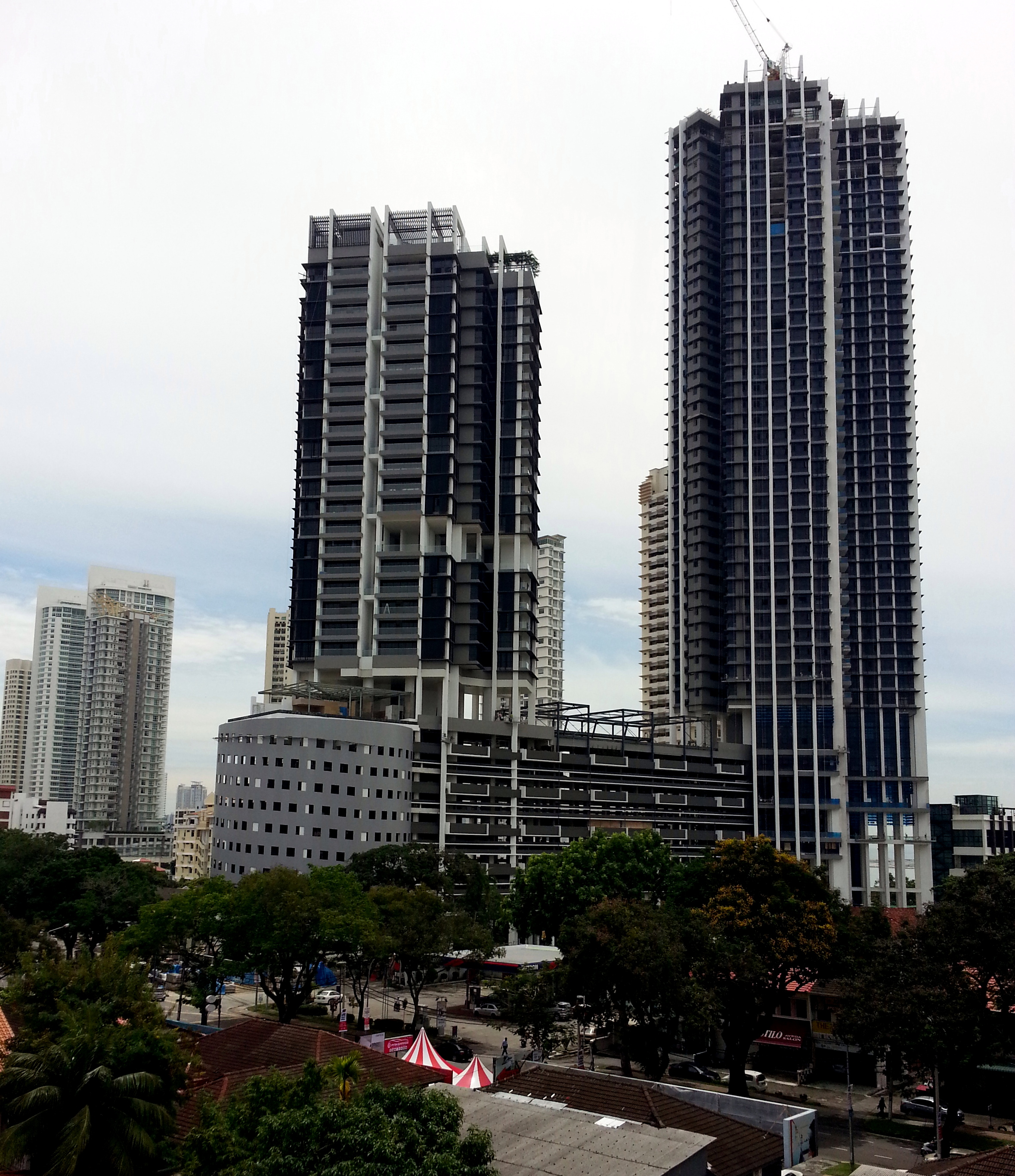 Setia V Residences B (left) and A (right) near Gurney Drive, George Town, Penang